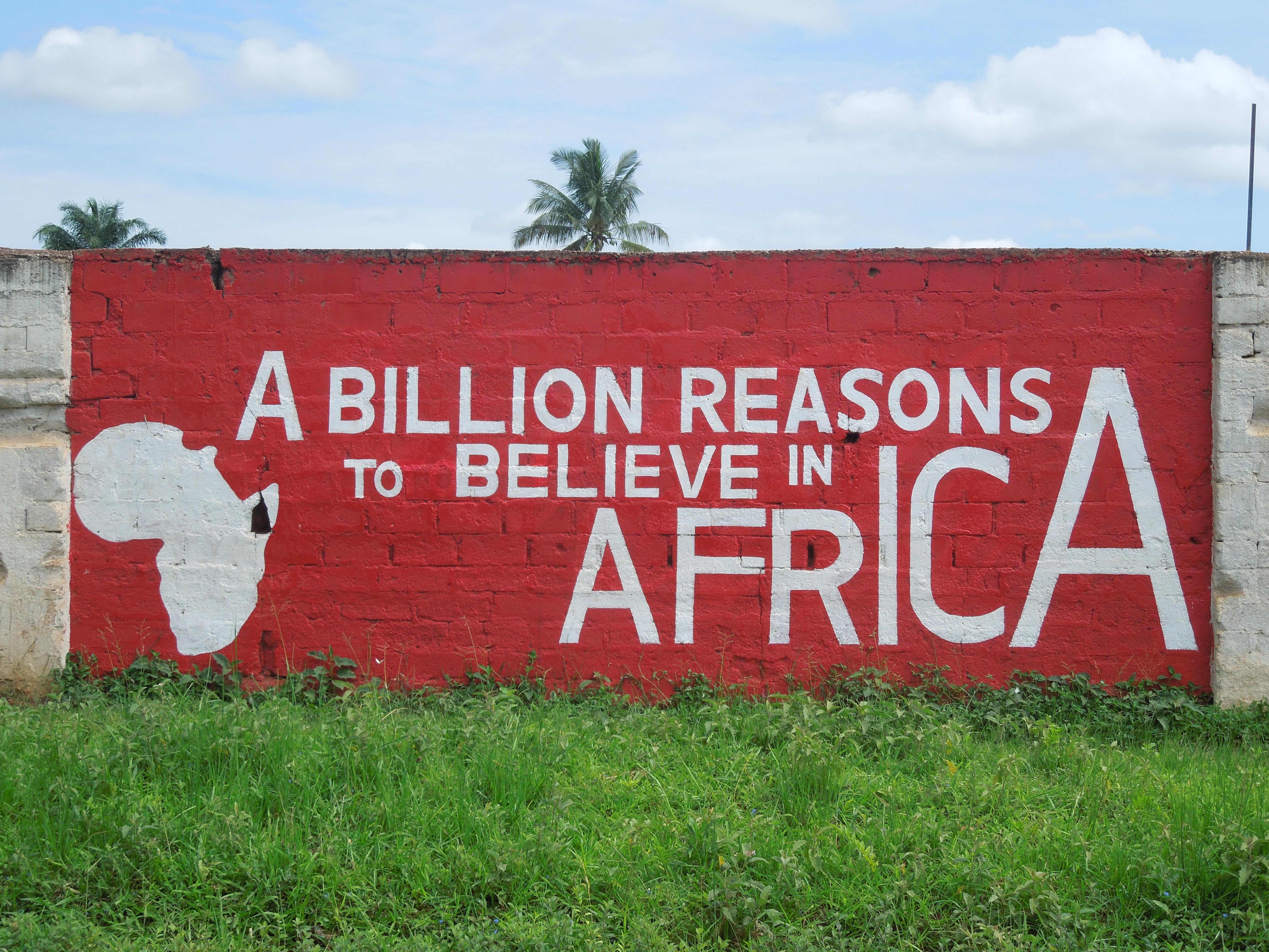 Ujiji